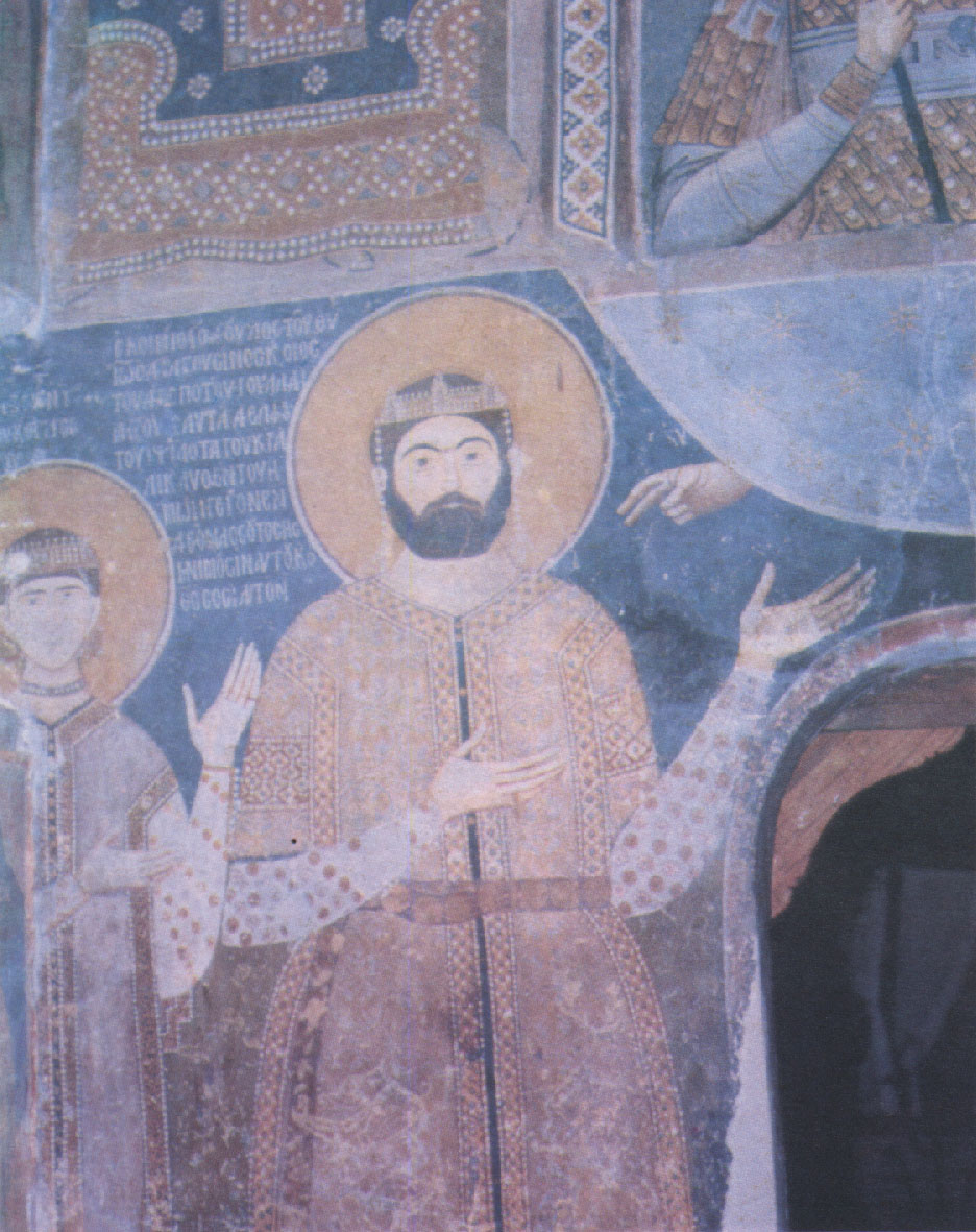 Ivan Dragushin and his wife - a fresco in the church of Kavadarci, Republic of Macedonia